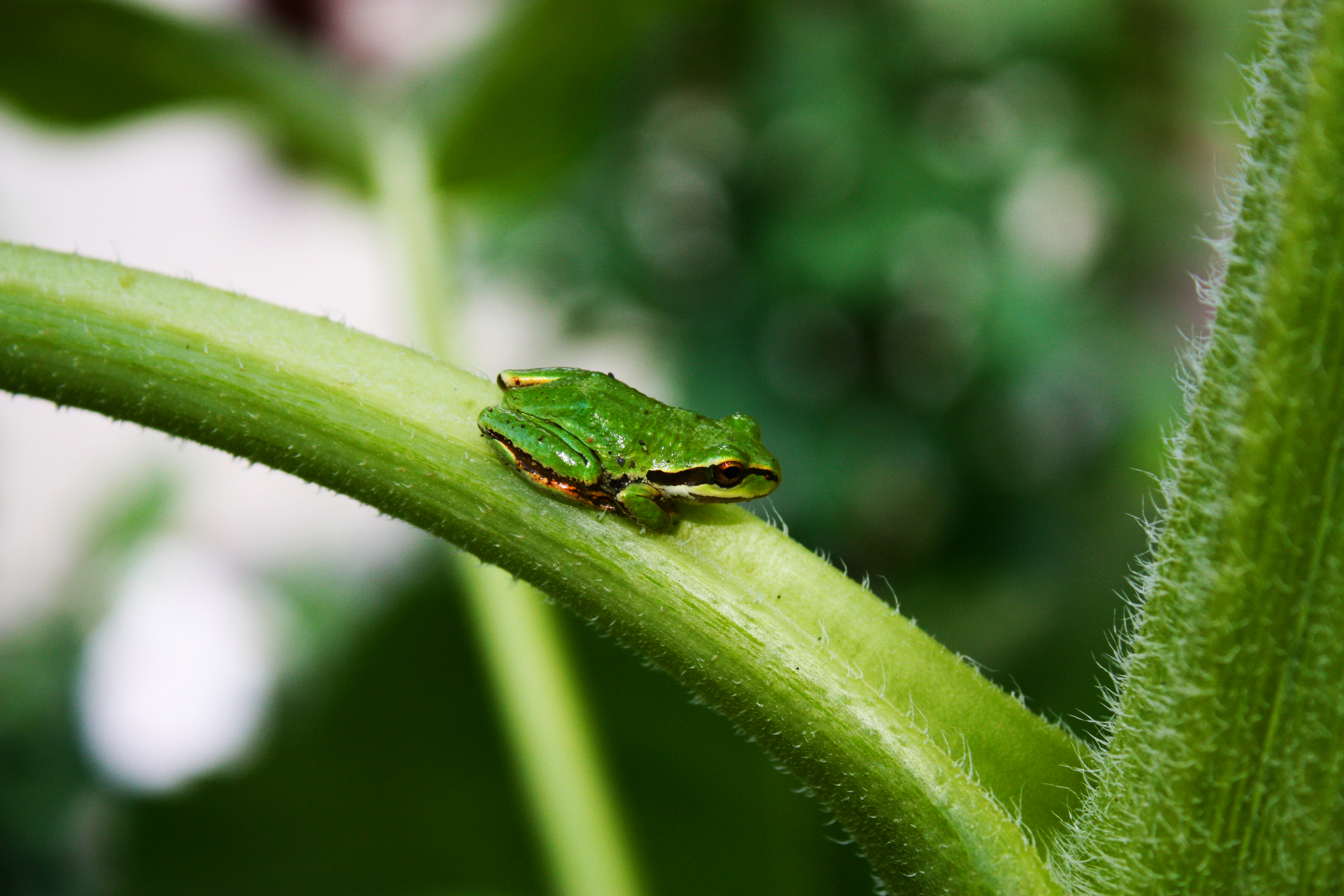 A [Pacific Tree Frog] (Pseudacris regilla) in green morph, Vancouver Island ,British Columbia